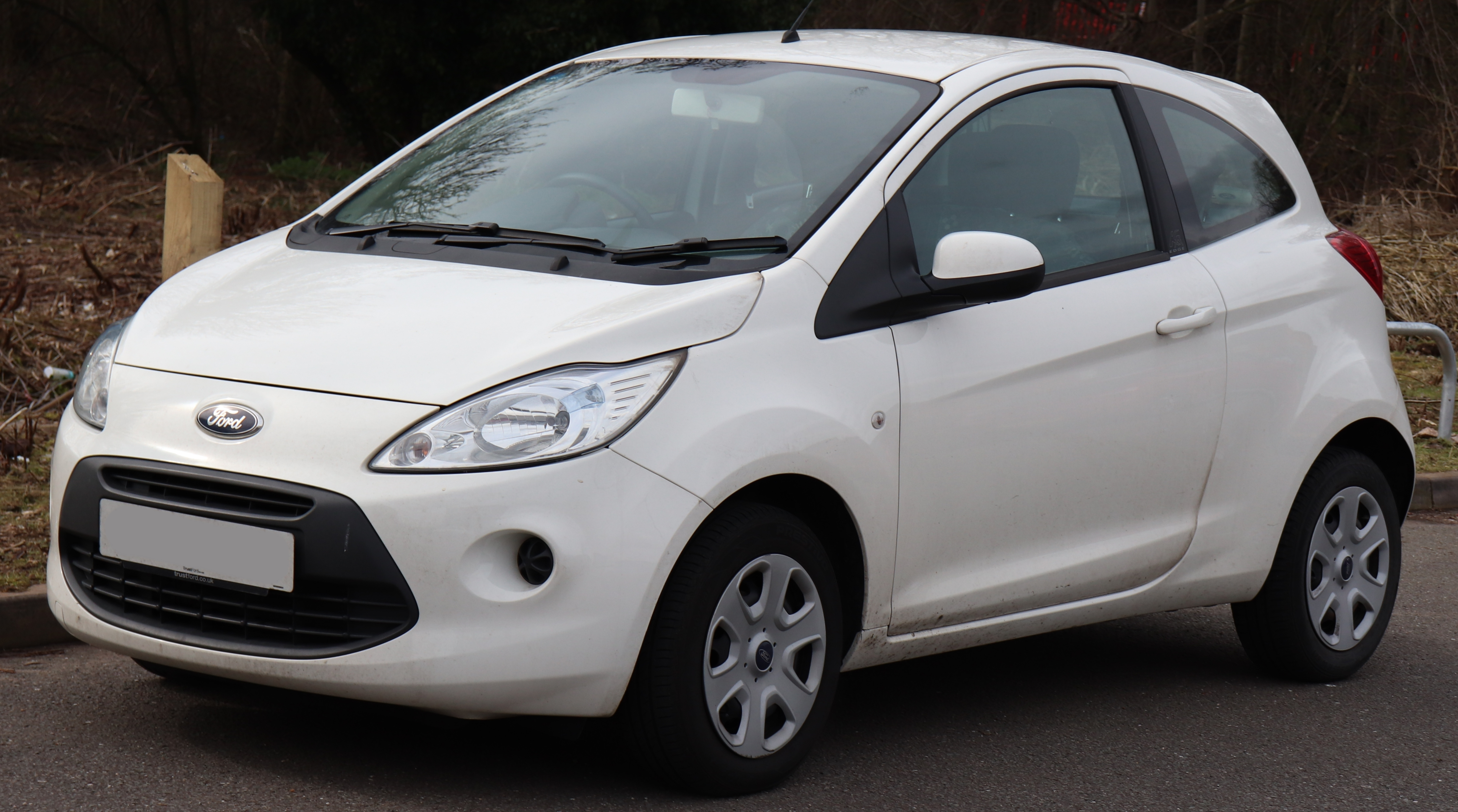 2014 Ford KA Edge 1.2 Front Taken in Leamington Spa